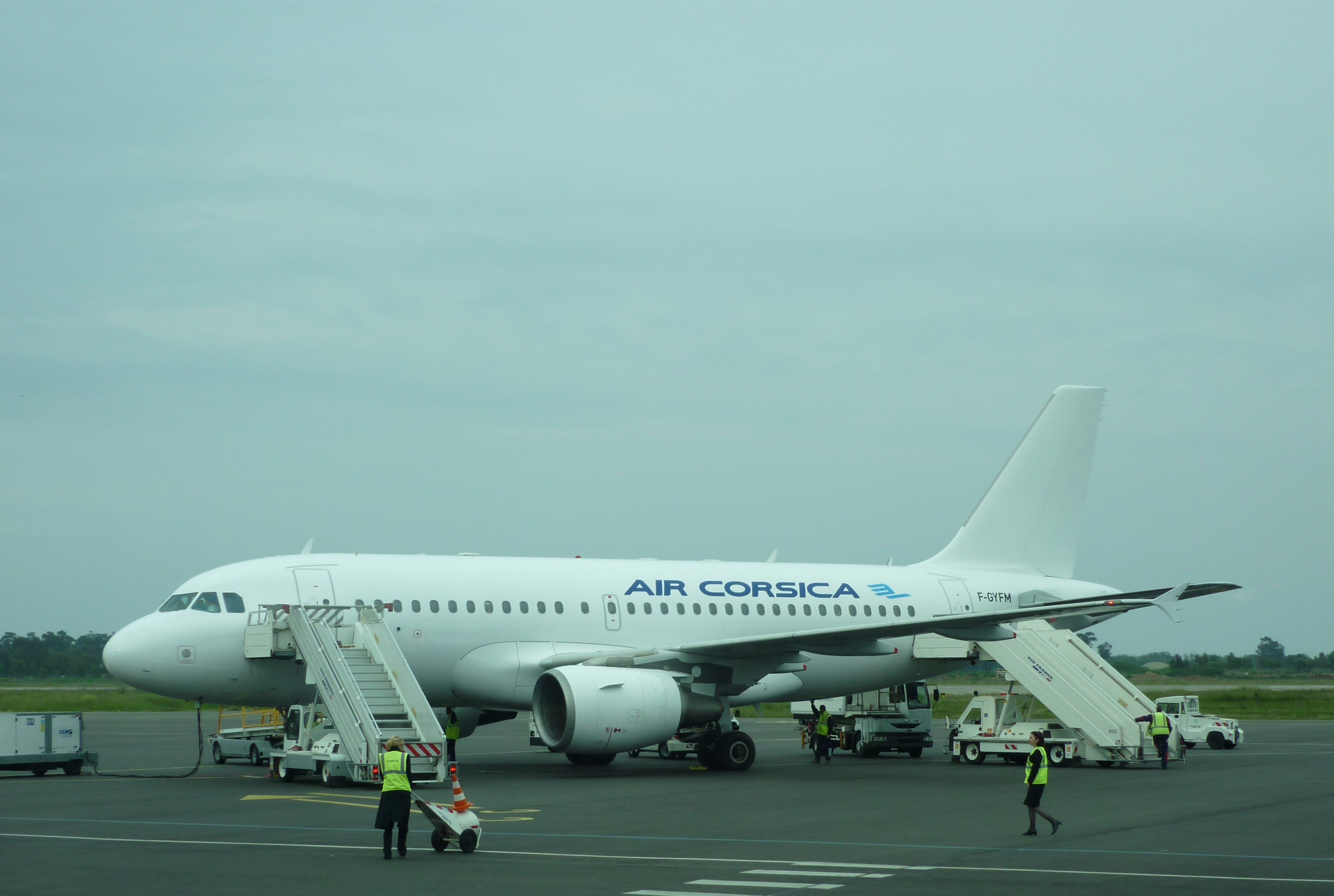 Air Corsica Airbus A319-100 F-GYFM at Bastia Airport, France.